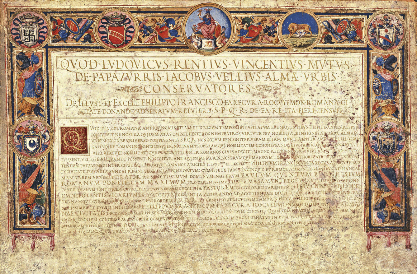 Patent of Roman citizenship granted to Hasekura Tsunenaga, 20 November 1615. 68.5cm by 88.5cm